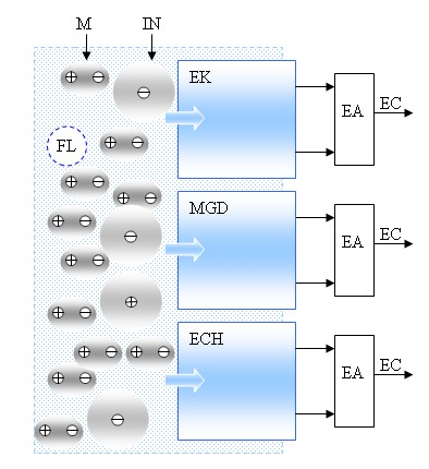 Molecular power 32. Integration of the molecular hydropower systems